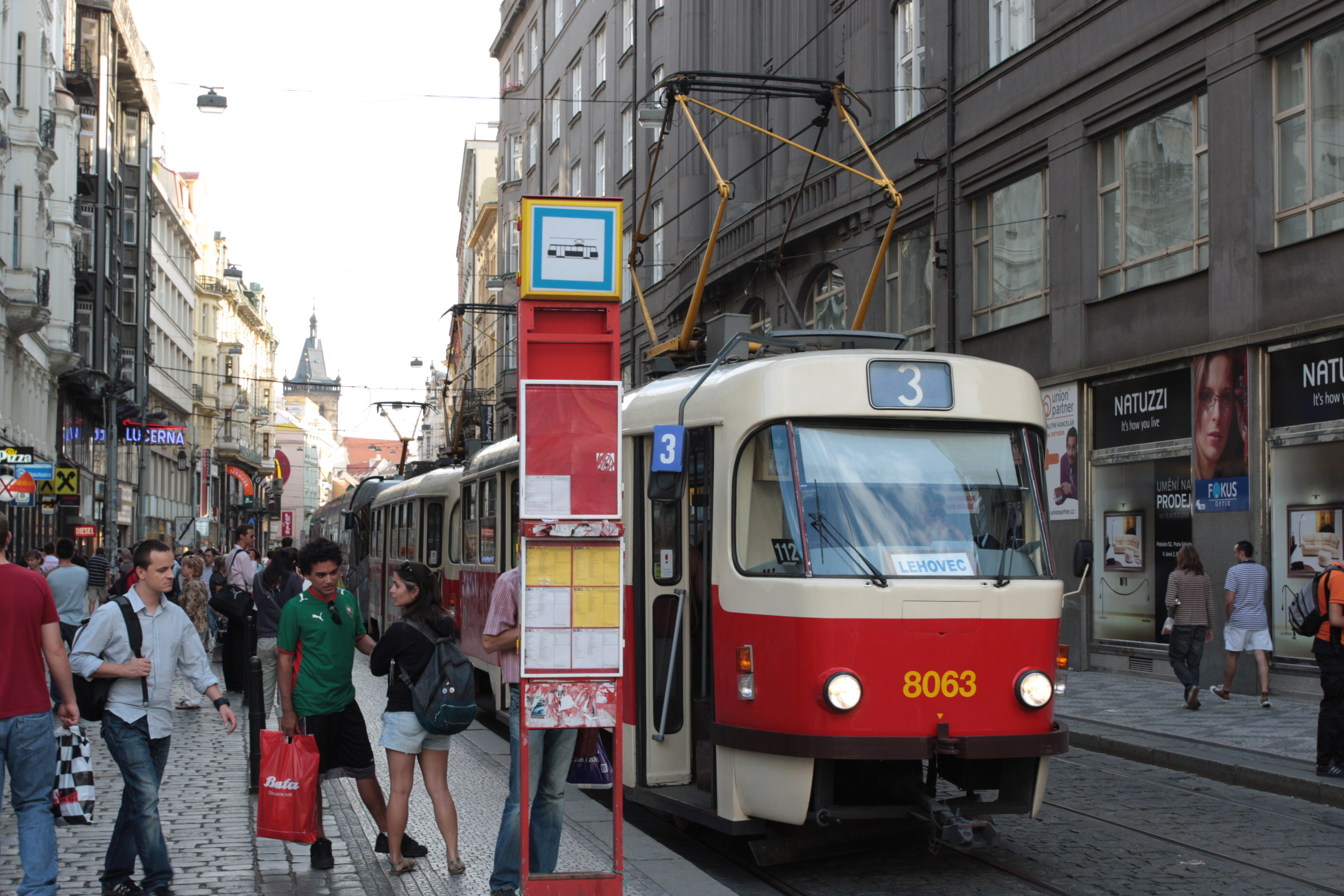 Tratra T3 at a station in Prague